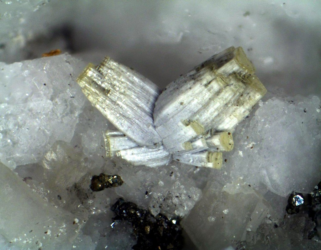 Donnayite-(Y), Ewaldite Locality: Poudrette quarry (Demix quarry; Uni-Mix quarry; Desourdy quarry; Carrière Mont Saint-Hilaire), Mont Saint-Hilaire, La Vallée-du-Richelieu RCM, Montérégie, Québec, Canada FOV = 1.96 x 1.53 mm Collected 5/25/91. Associated minerals: calcite, pyrite, fluorite. 32 frames with Zerene Stacker DMap method.